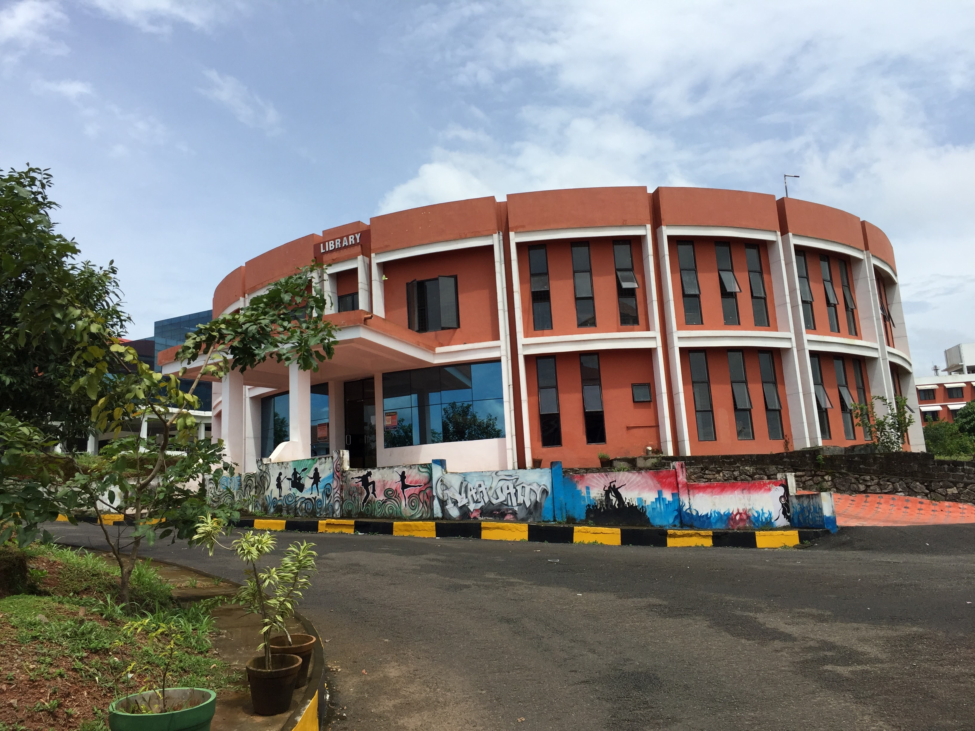 The NUALS Library, at the centre of the University.